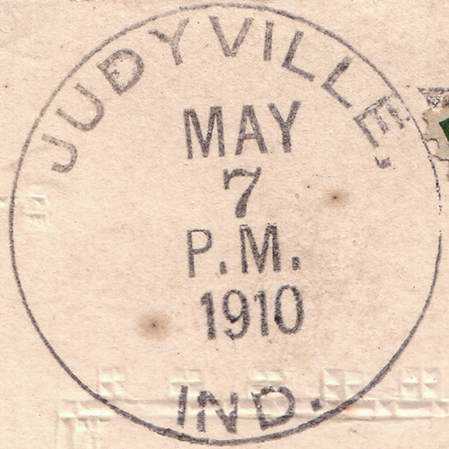 A postmark from the Judyville post office in Warren County, Indiana, dated May 7, 1910. Scanned and converted to PNG by Huwmanbeing.